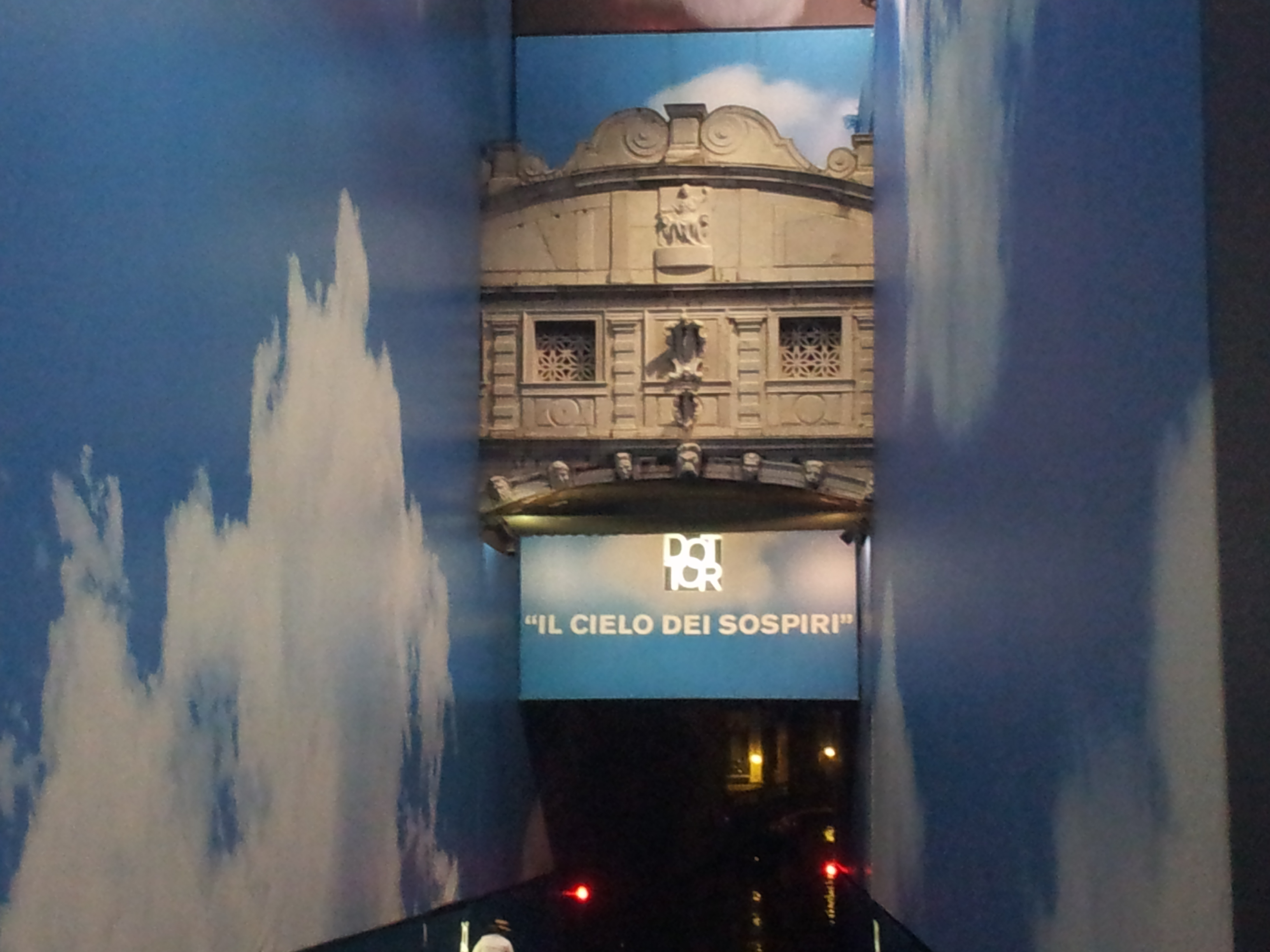 Il Ponte dei Sospiri (Bridge of Sighs) in Venice during maintenance.